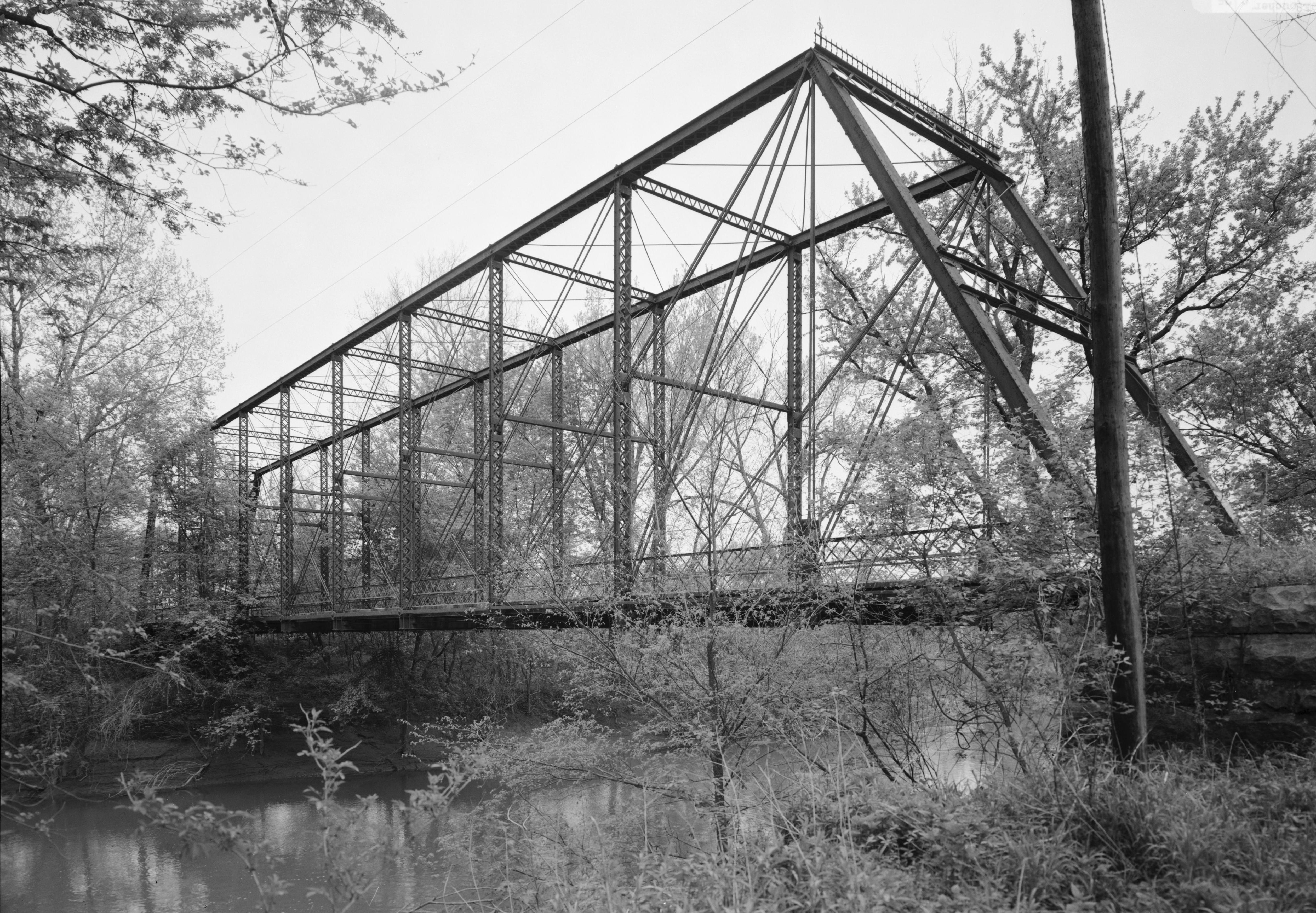 Southern (downstream) side of the Feeder Dam Bridge, which carries Towpath Road over the South Eel River near Clay City in Clay County, Indiana, United States. Built in 1894, the Whipple through truss bridge is listed on the National Register of Historic Places.